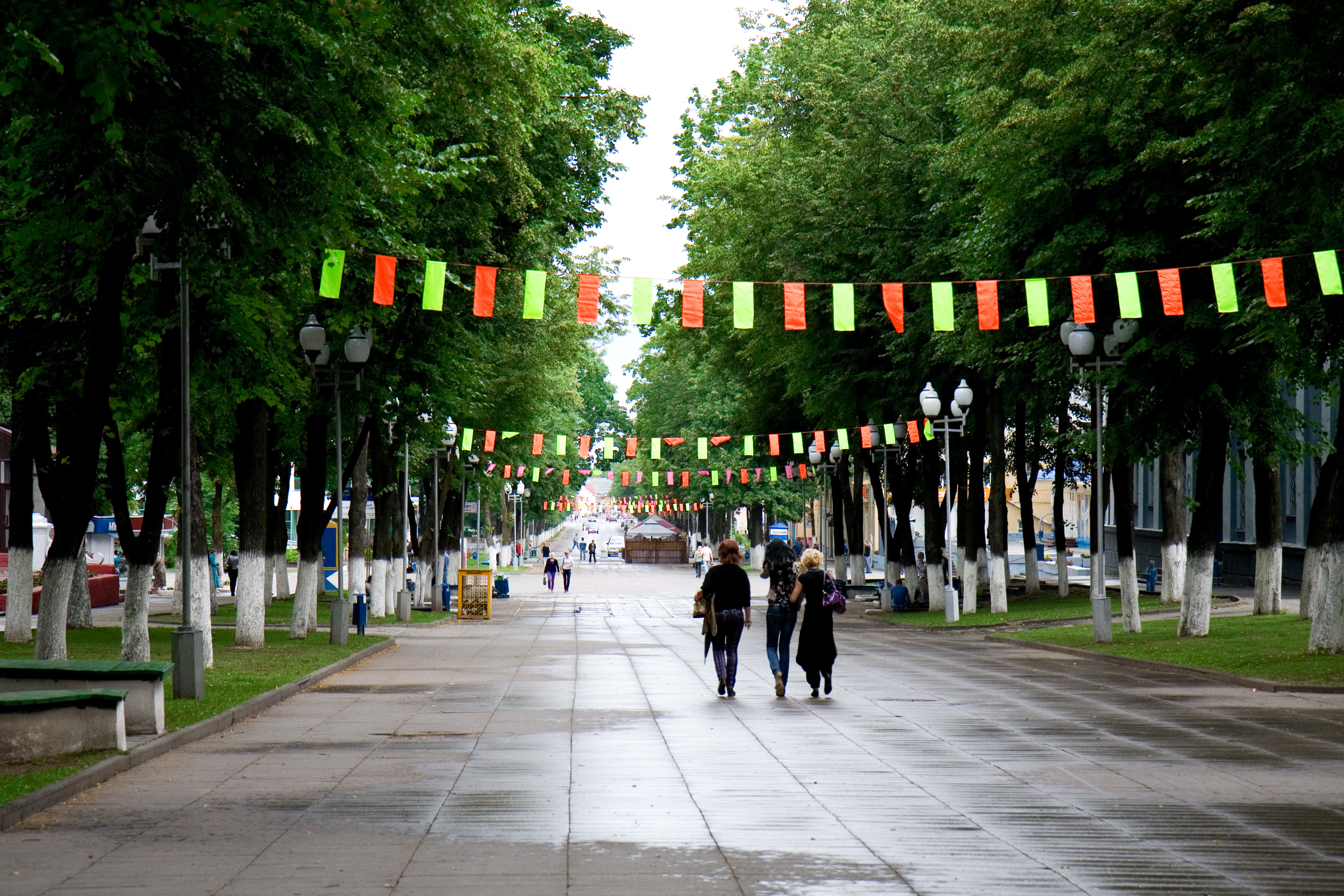 Pedestrian part of Pryticki st. in Maładziečna (Maladzechna), Belarus — „Broadway“.